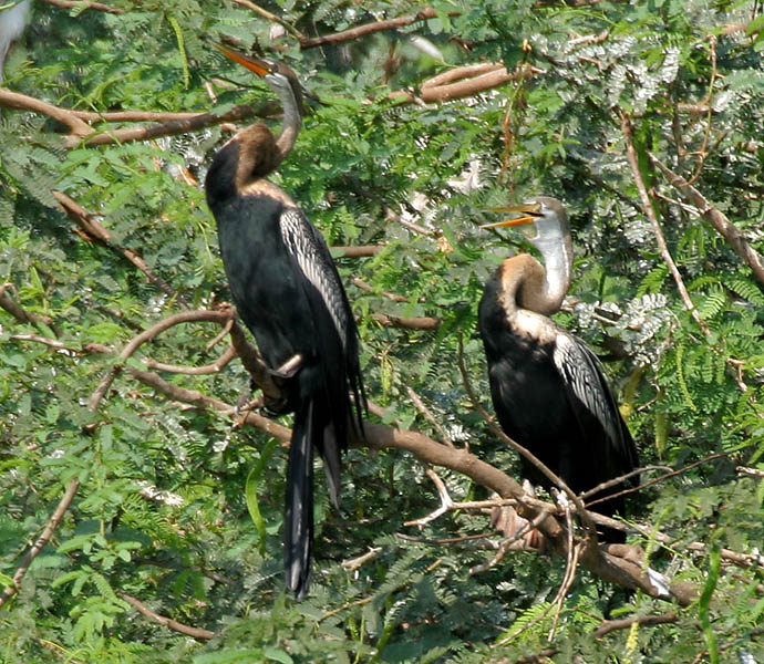 Oriental Darter or Indian Darter or Snakebird Anhinga melanogaster at Uppalapadu, Andhra Pradesh, India.